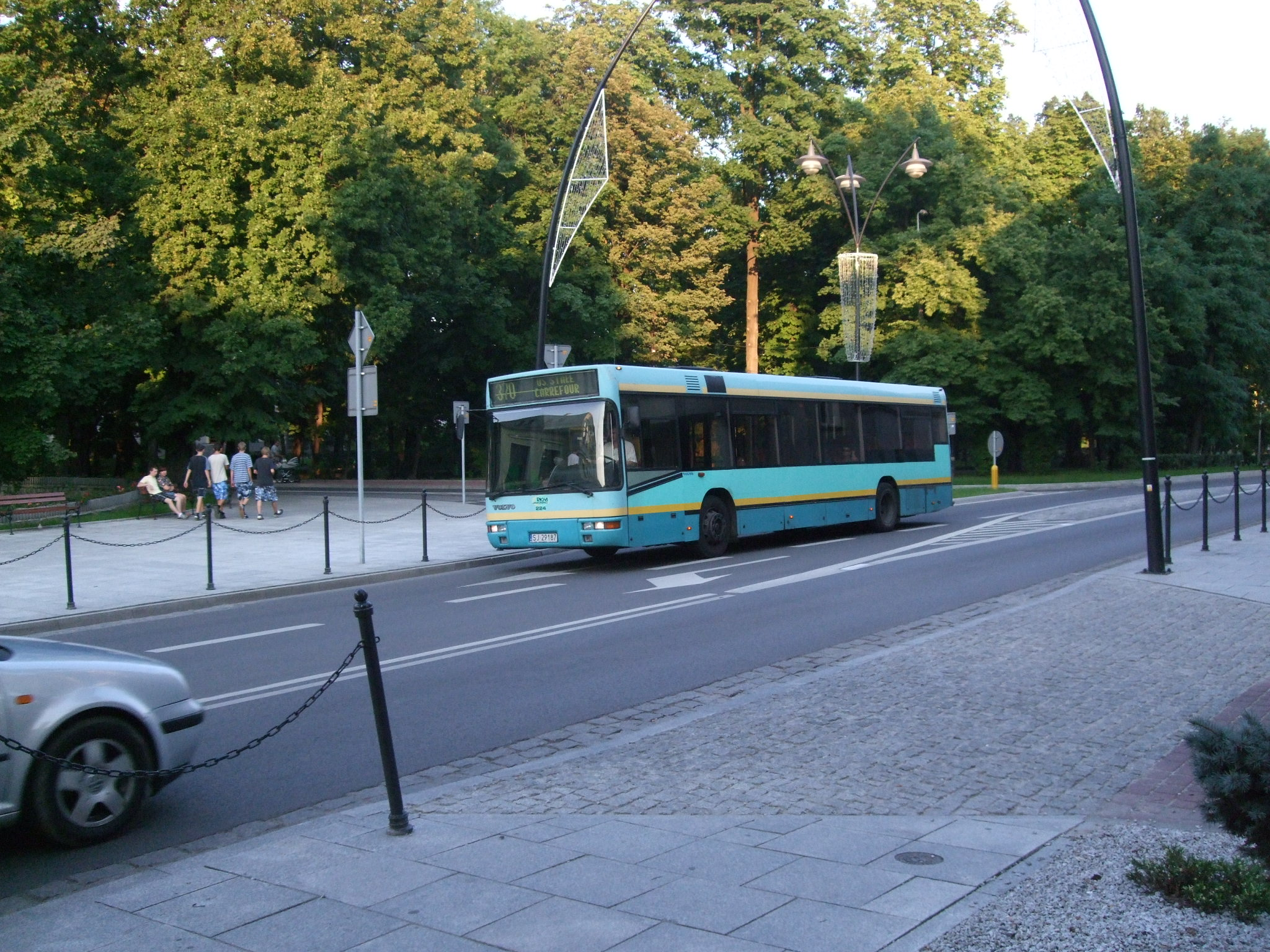 Steyr SN12 bus (#224, reg. SJ 29187) with Volvo B10L chassis in Jaworzno, Poland. Built 1996, PKM Jaworzno operator.